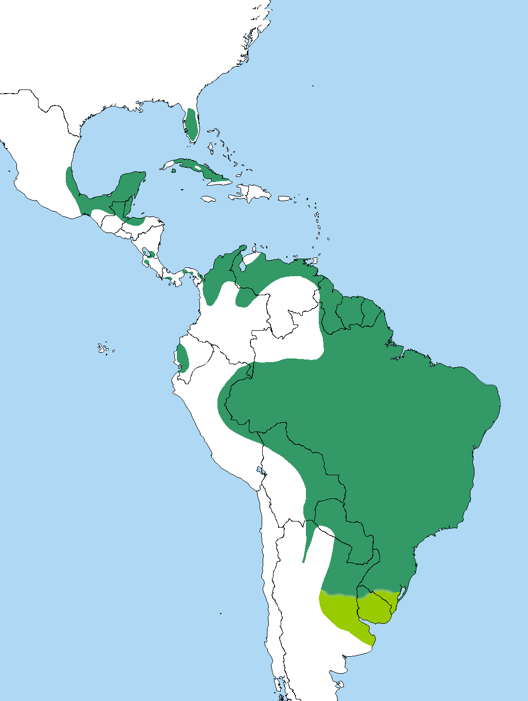 Distribution map of Snail Kite Rostrhamus sociabilis. Compiled from: Van Perlo (2009). A Field Guide to the Birds of Brazil. Schulenberg, Stotz, Lane, O'Neill & Parler III (2007). Birds of Peru. WikiAves Brasil. Neotropical Birds Ferguson-Lees, J. & Christie, D. A. (2001). Raptors of the World: pp 102 and 363.